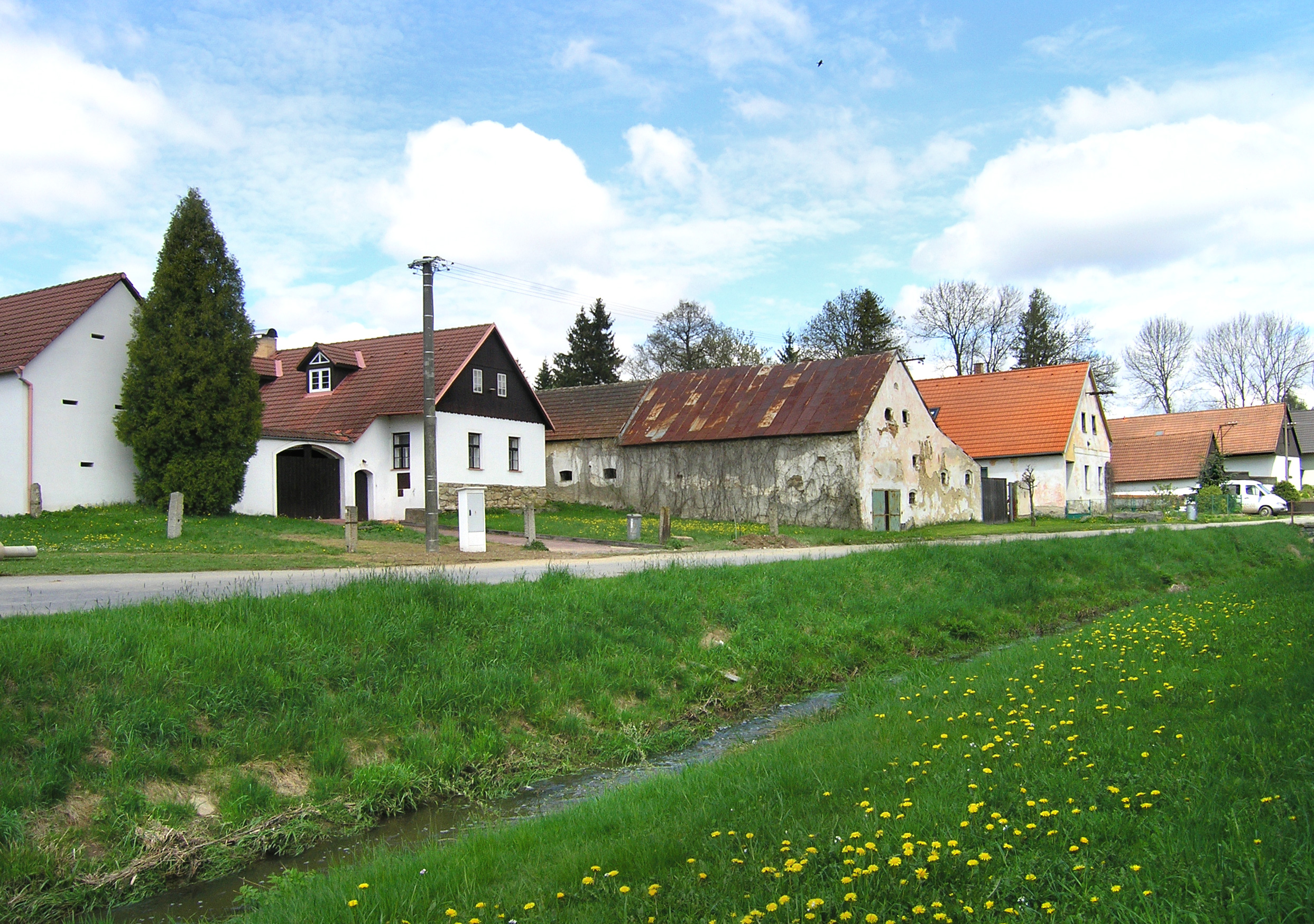 Big common in Stranná village, part of Žirovnice, Czech Republic